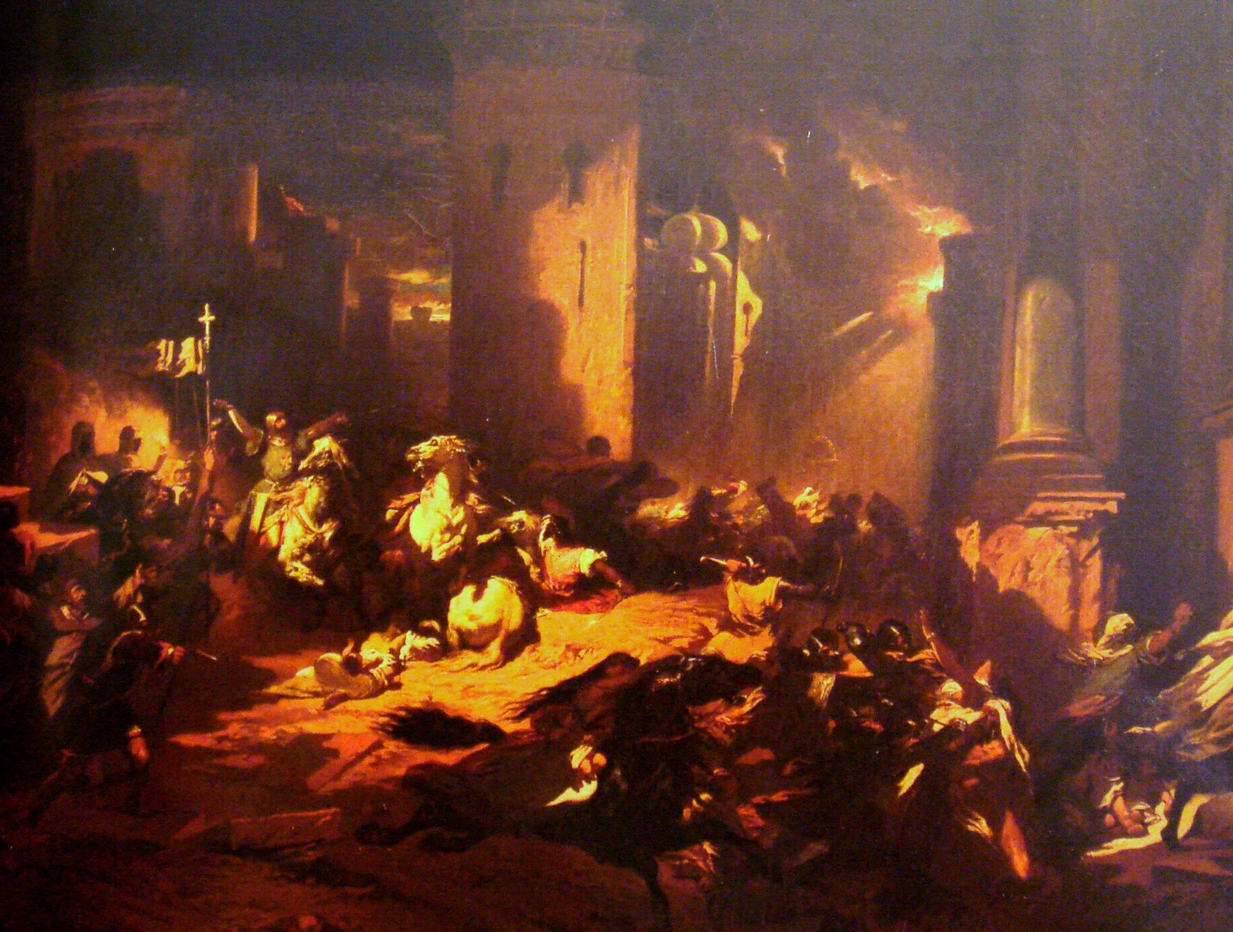 Capture_of_Antioch_by_Bohemond_of_Tarente_in_June_1098